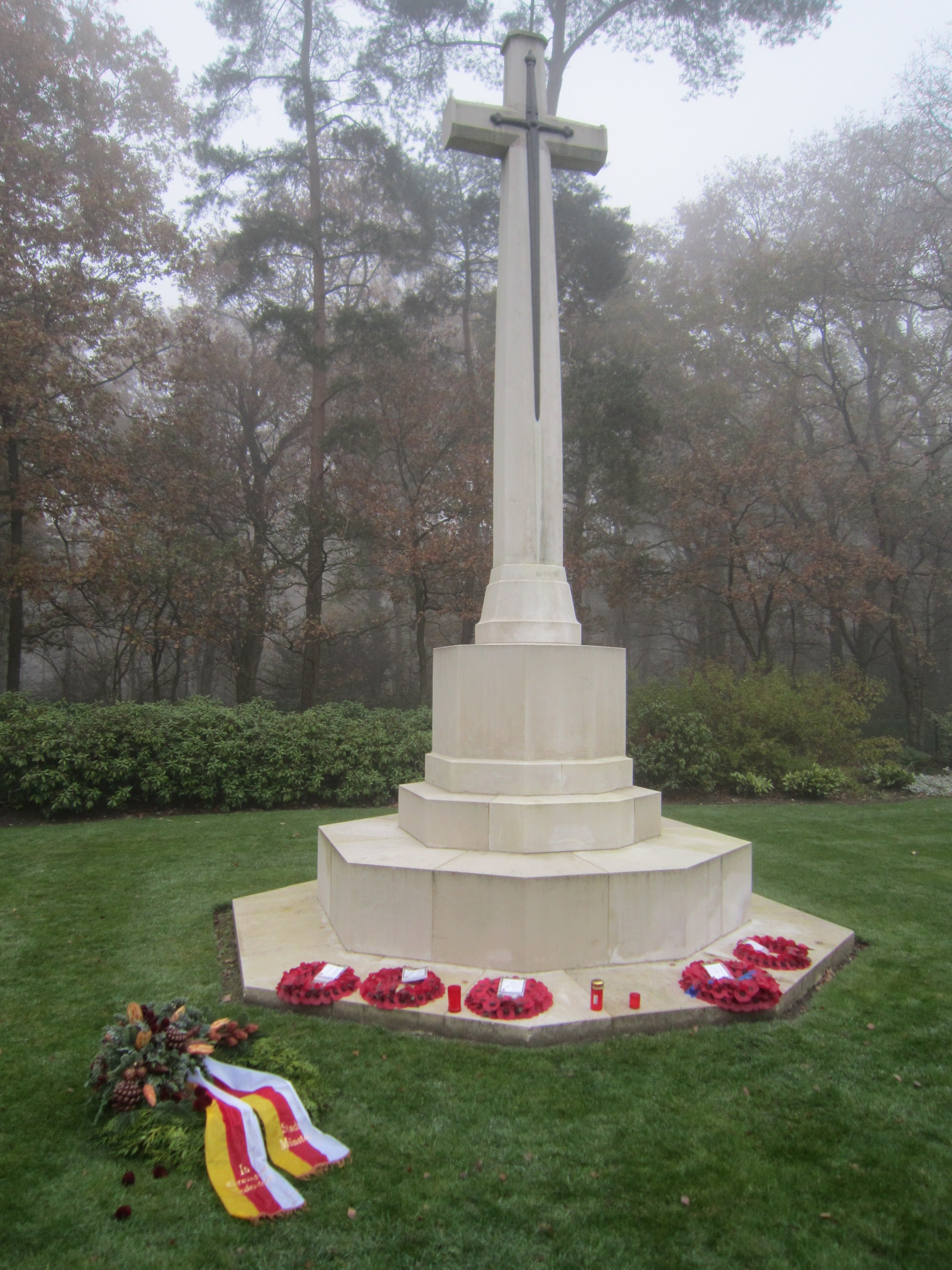 Münster Heath Cemetery in the Forestal Cemetery Lauheide at the National Day of Mourning (Commonwealth soldiers' cemetery )